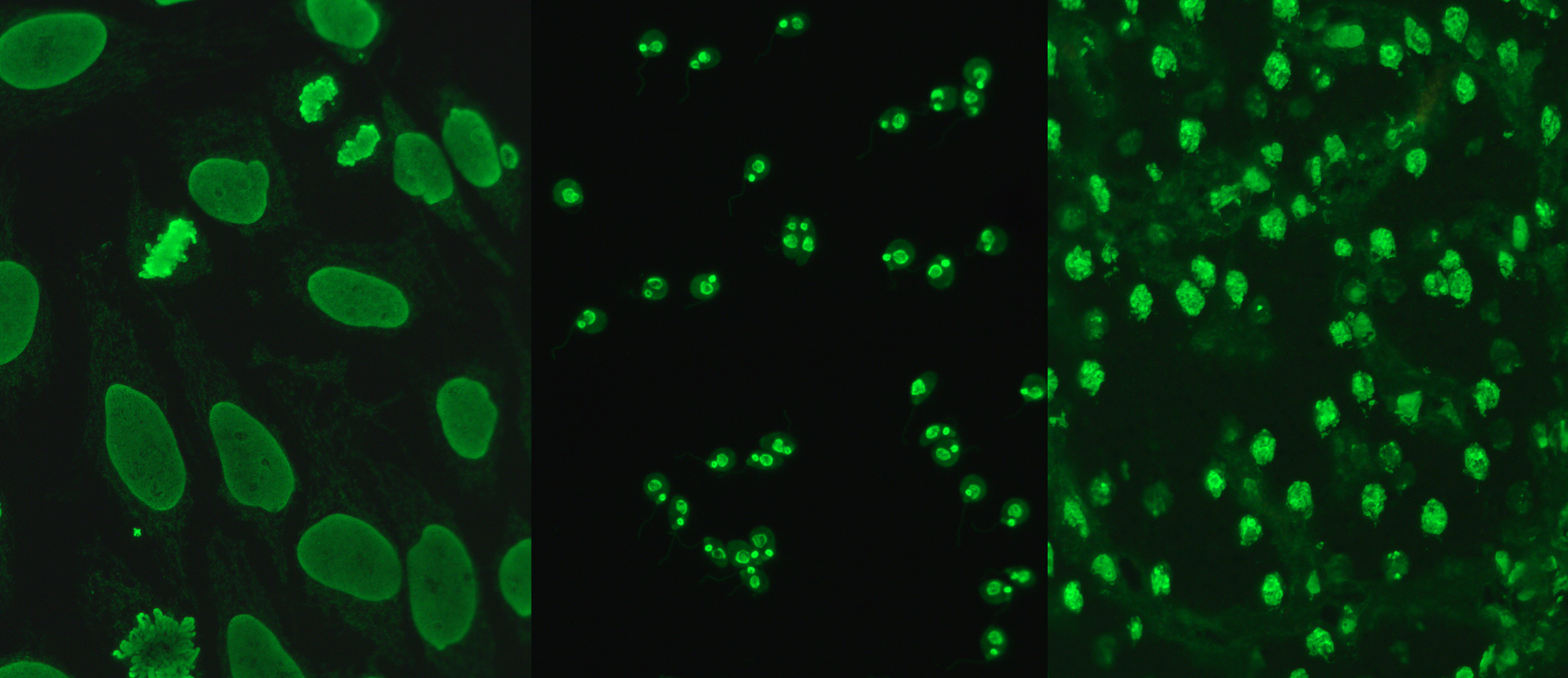 Immunofluorescence pattern of double stranded DNA antibodies. Produced using serum from a patient with lupus erythematosus on HEp-20-10 cells (left), Crithidia Luciliae (centre) and rat liver (right) with a FITC conjugate.